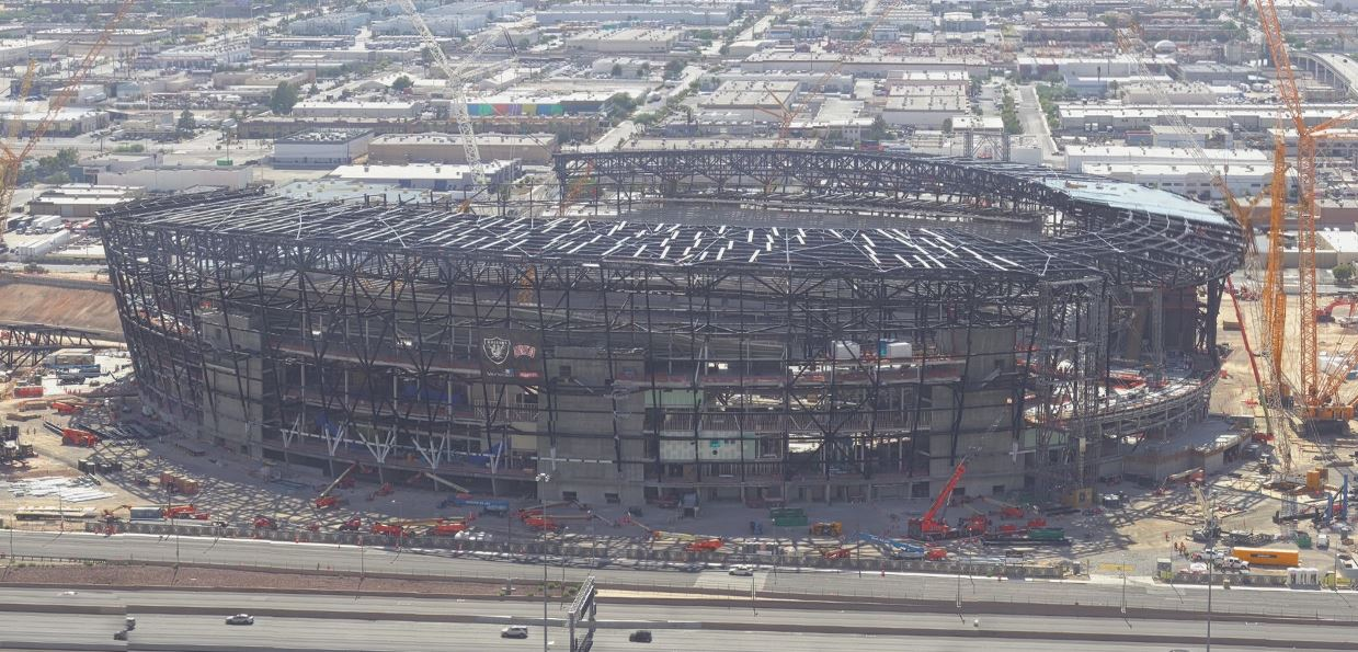 Photo taken from the Mandalay Bay on 7/7/2019.